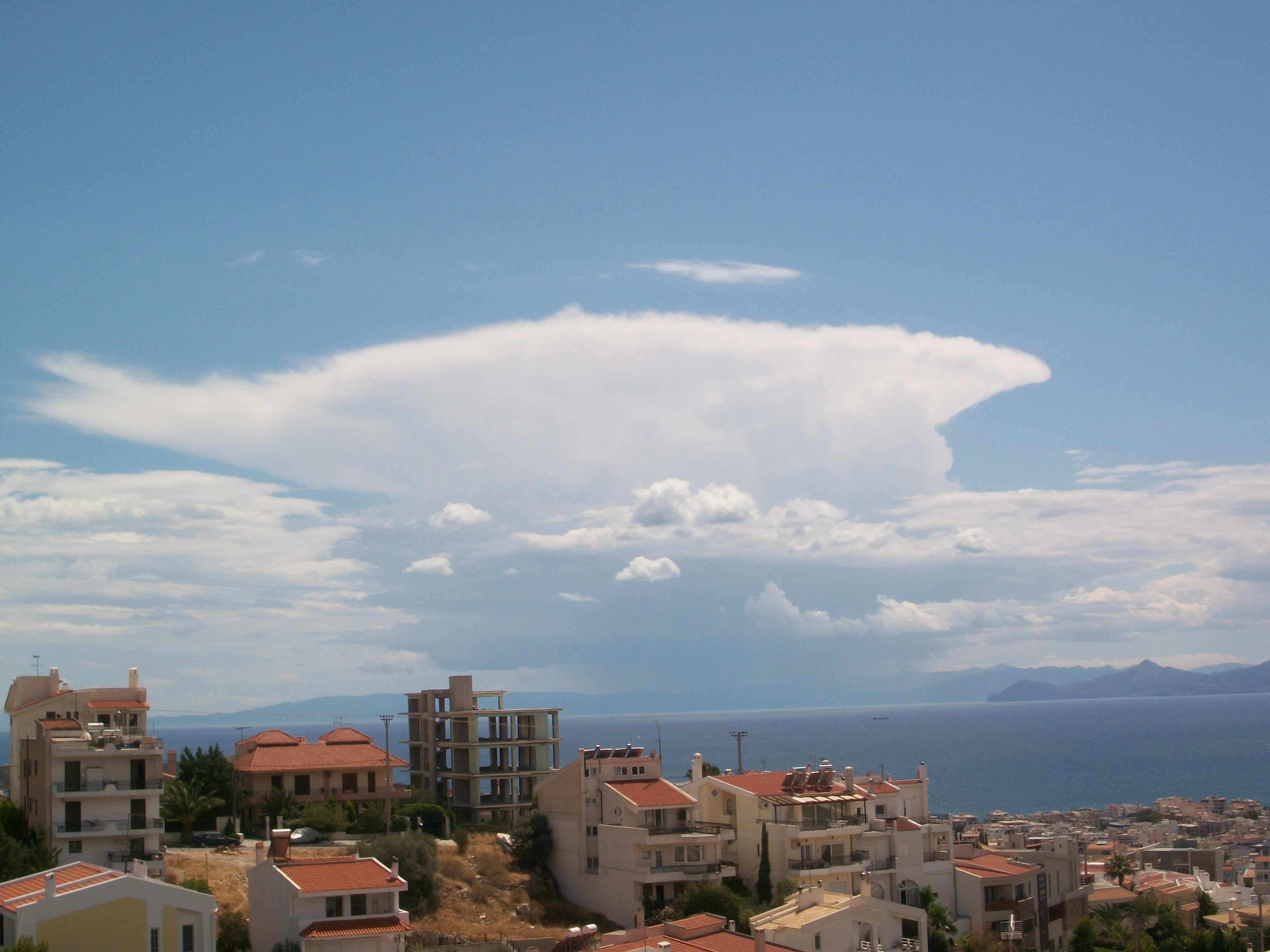 A fully developped cumulonimbus incus with precipitation below it. It was formed above Argolis during a hot summer day. It later turned into a cirrus spissatus. In this photo cumulus and altocumulus can be seen around the cloud.